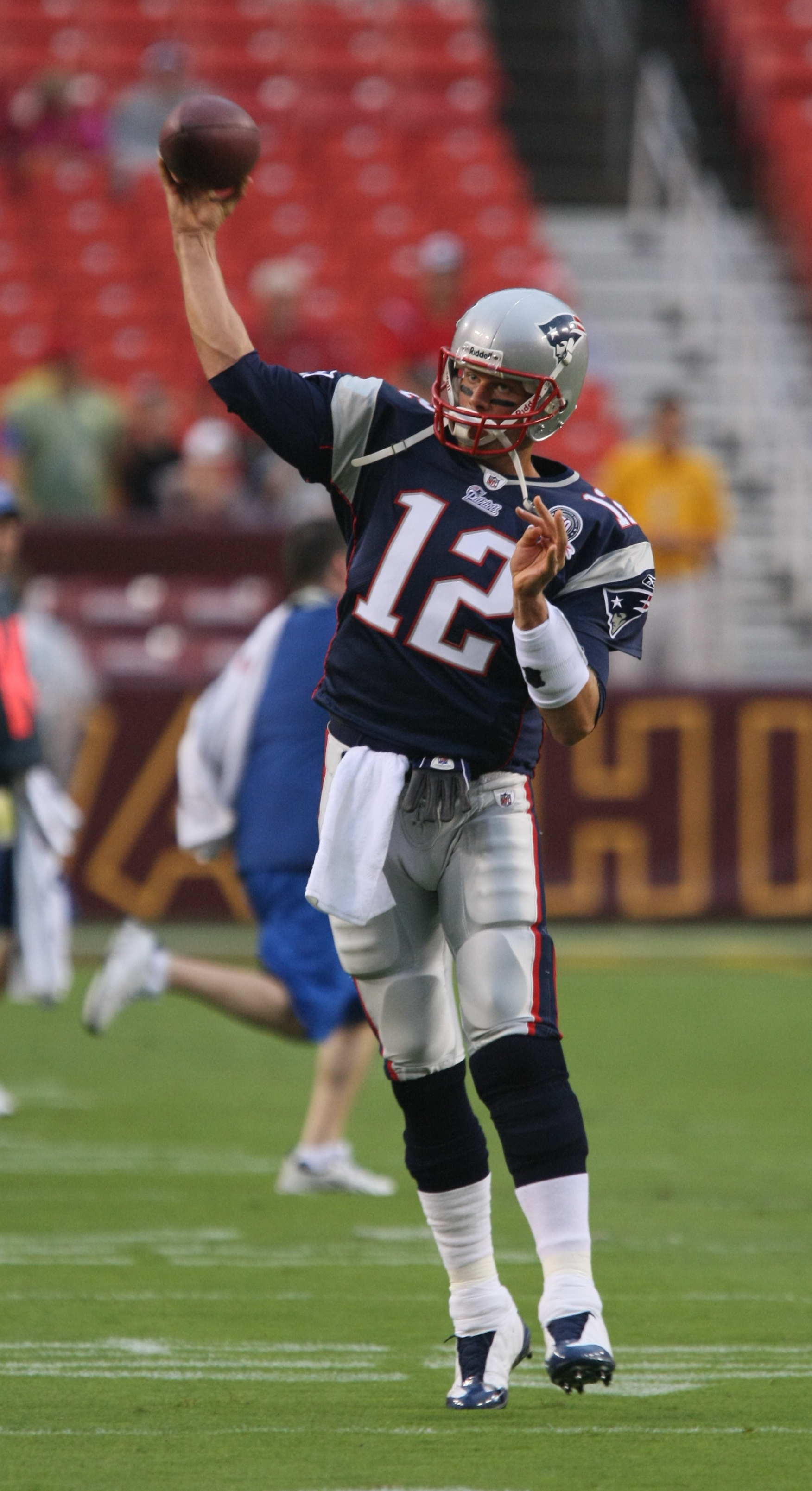 Tom Brady #12 of the New England Patriots during warmups in a preseason game against the Washington Redskins at FedExField on August 28, 2009 in Landover, Maryland.